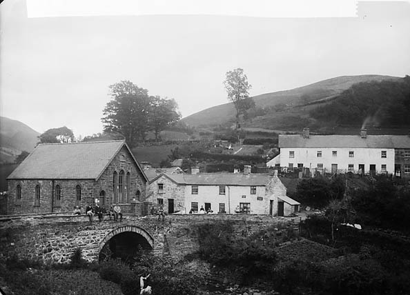 1 negative : glass, dry plate, b&w ; 12 x 16.5 cm.